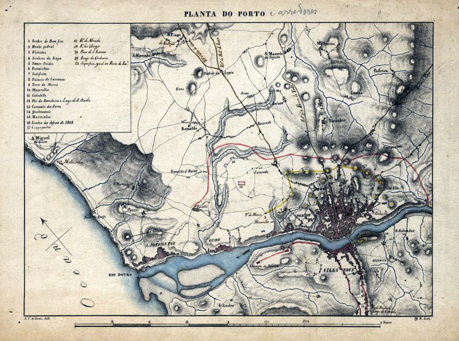 Plant of Oporto and environs, circa 1830. Date assigned based on printer's activity, between ca 1824 and 1837.